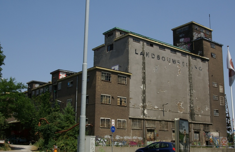 Building "Landbouwbelang", Biezenwal 3, Maastricht, The Netherlands